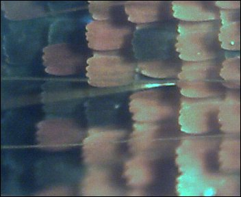 Aglais urticae, a wing under the microscope